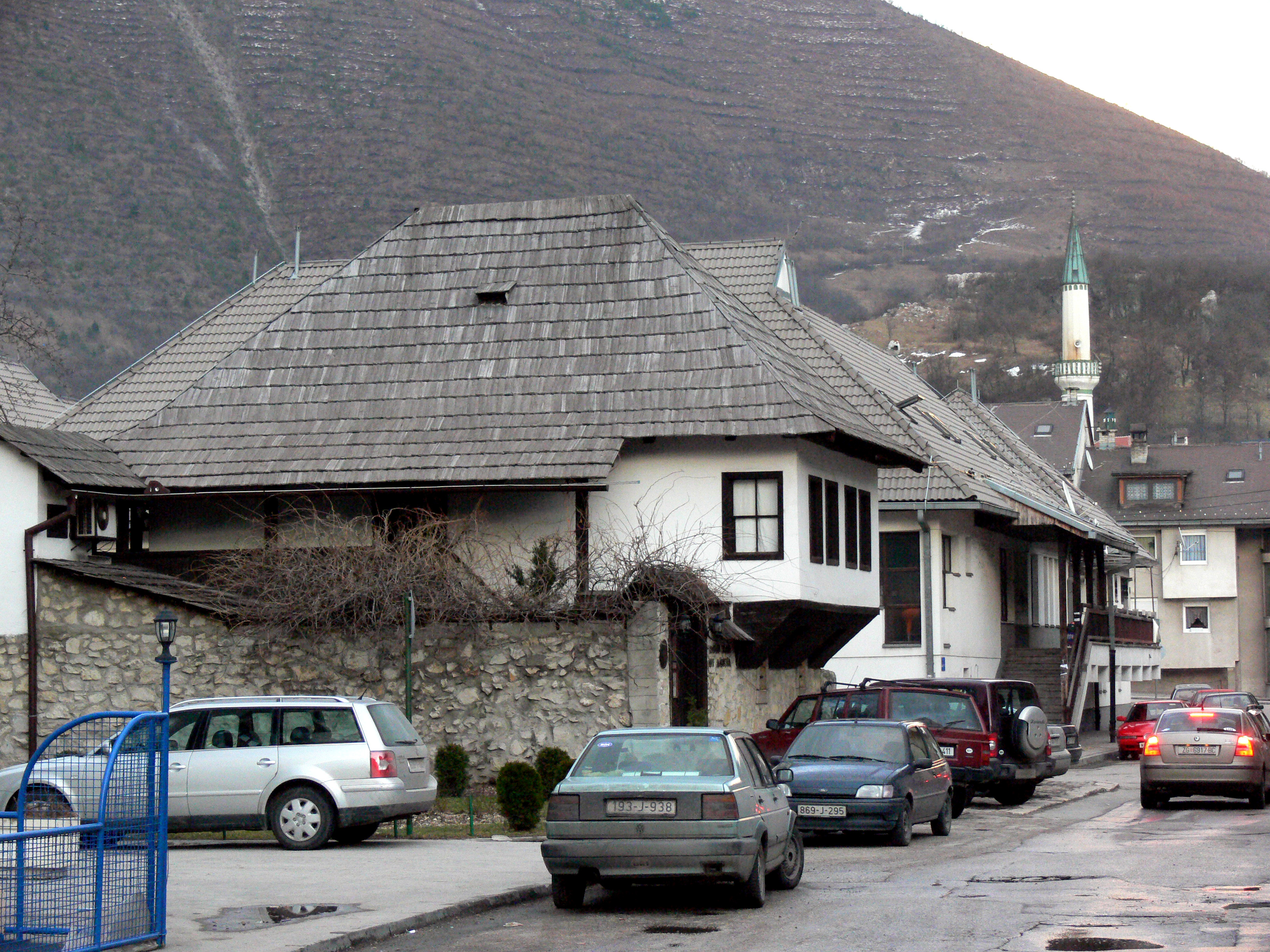 The house, where Ivo Andrić was born.